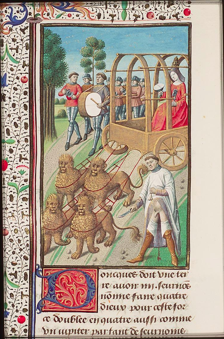 A depiction of Origen’s self-castration. Kybele: Den Haag, MMW, 10 A 11 341v Book 7, 24 Cybele in a chariot drawn by lions; self-castration of one the Galli, eunuch priests of Cybele 120x80